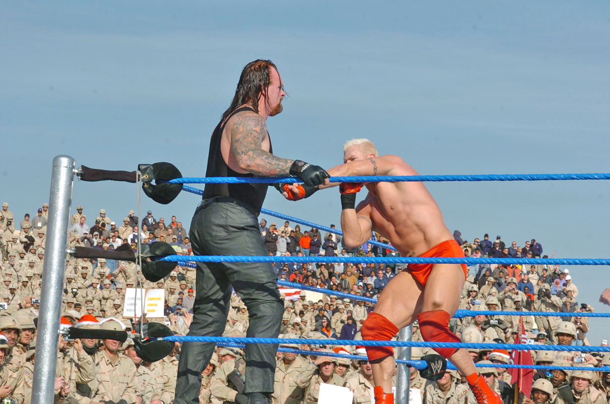 World Wrestling Entertainment (WWE) Smackdown visits the Soldiers of 1st Infantry Division in Iraq. WWE visited several Forward Operating Bases during their three day visit. They ended with a Tribute to the Troops show in Tikrit, Iraq.